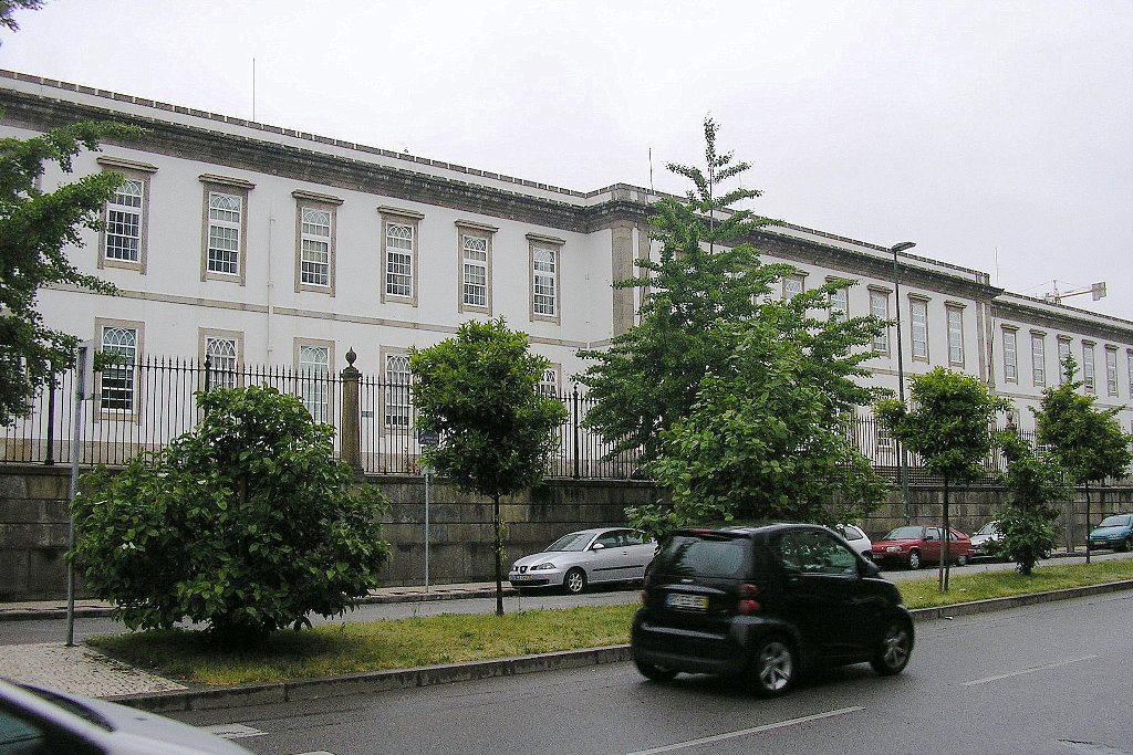 Military hospital in Porto city, Portugal.